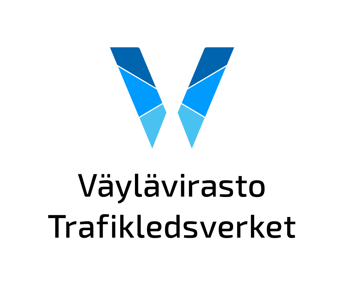 Logo of the Finnish Transport Infrastructure Agency